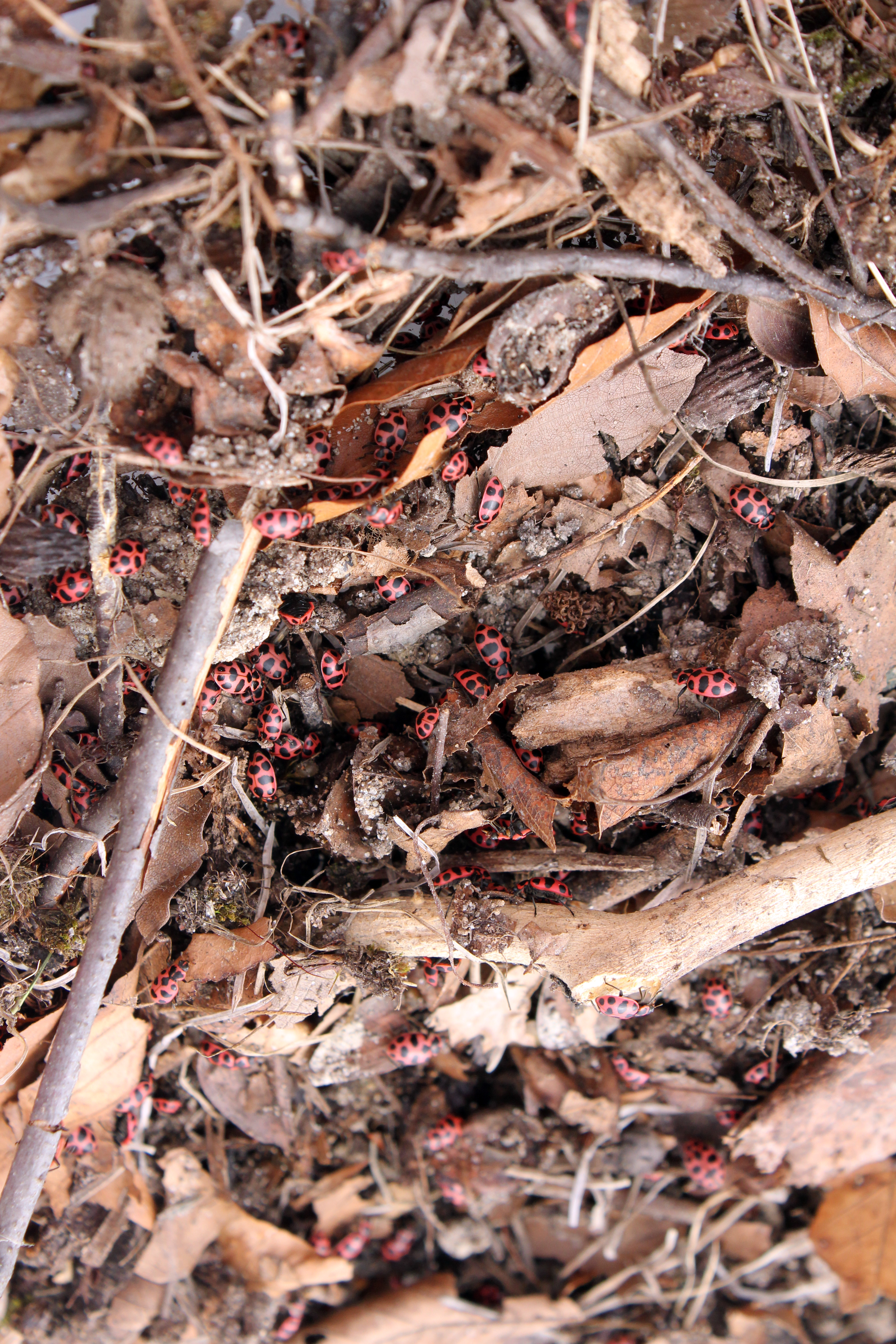 Coleomegilla maculata hibernation site